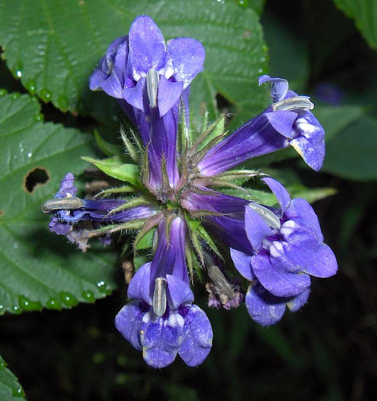 Great Lobelia 2